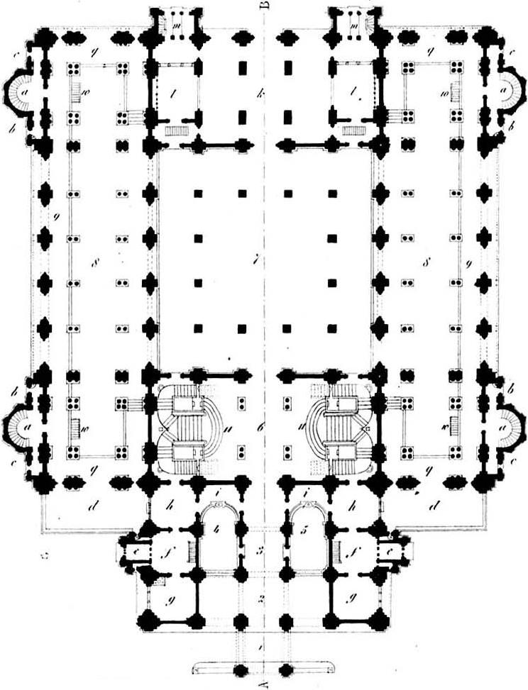 Competition design for a museum for art and antiquities, plan.